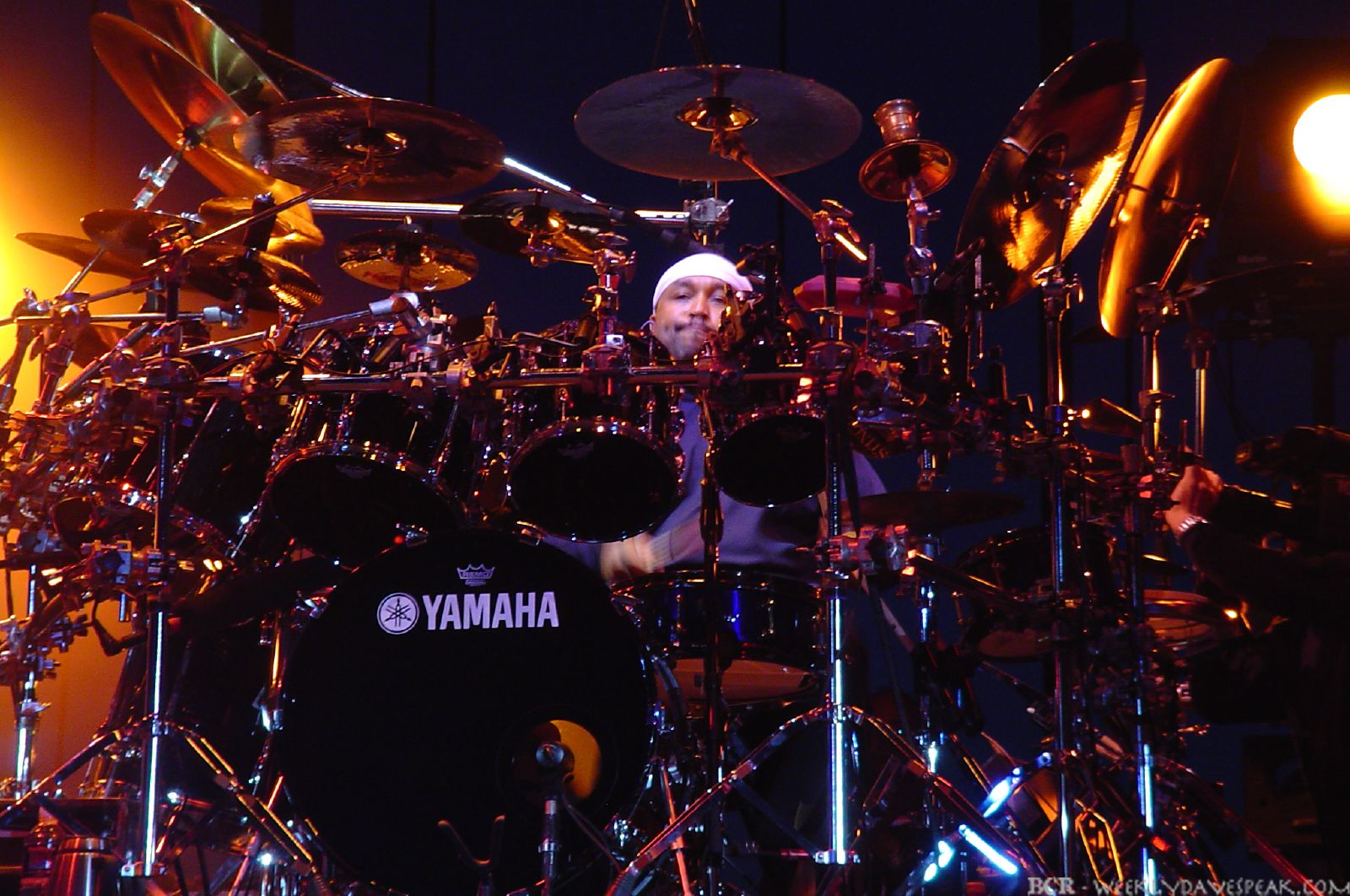 Dave Matthews Band drummer Carter Beauford behind his drum kit.